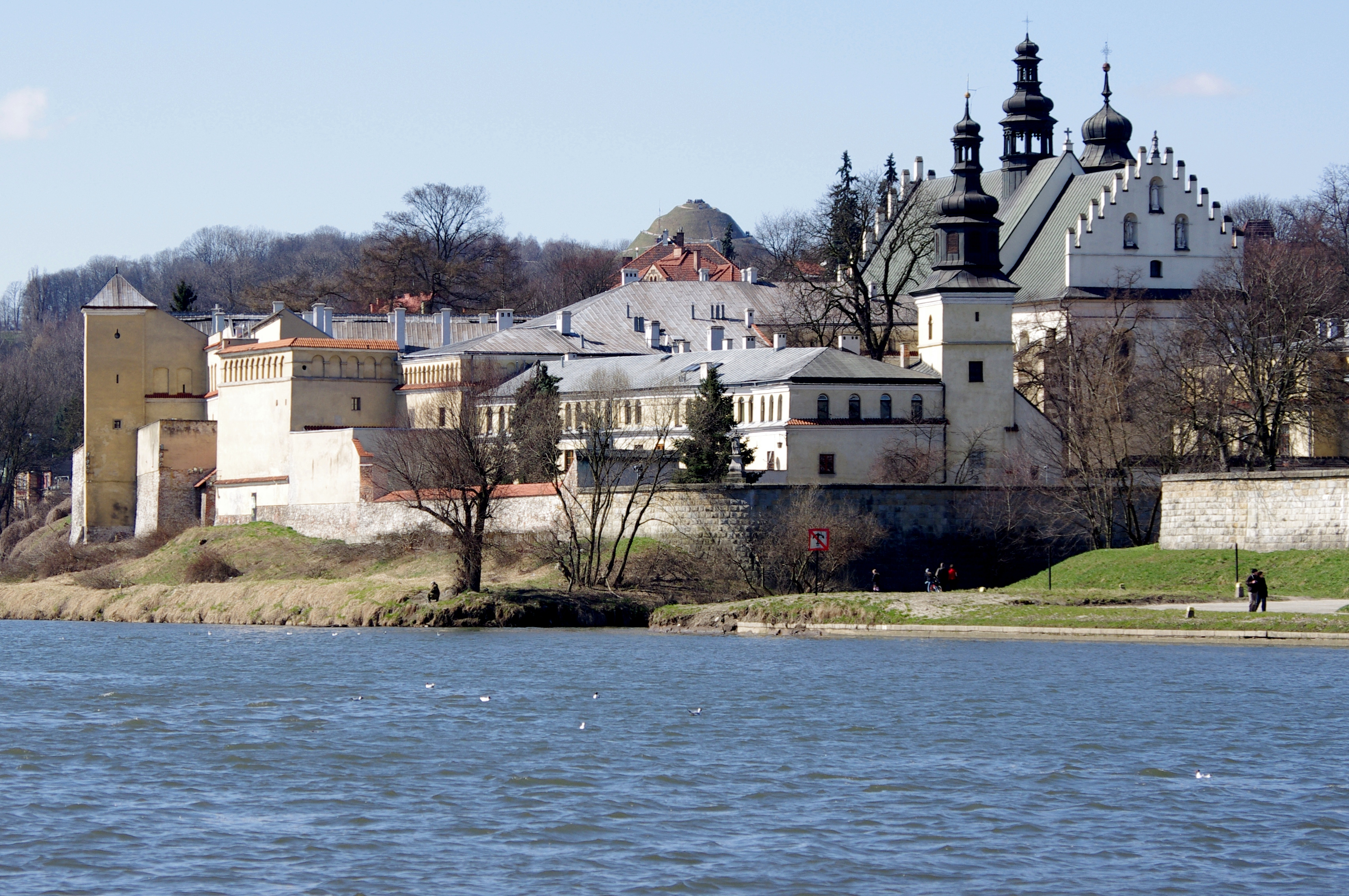 Monastery of the Norbertan Sisters and Church of St. Augustine and St. John the Baptist in Kraków